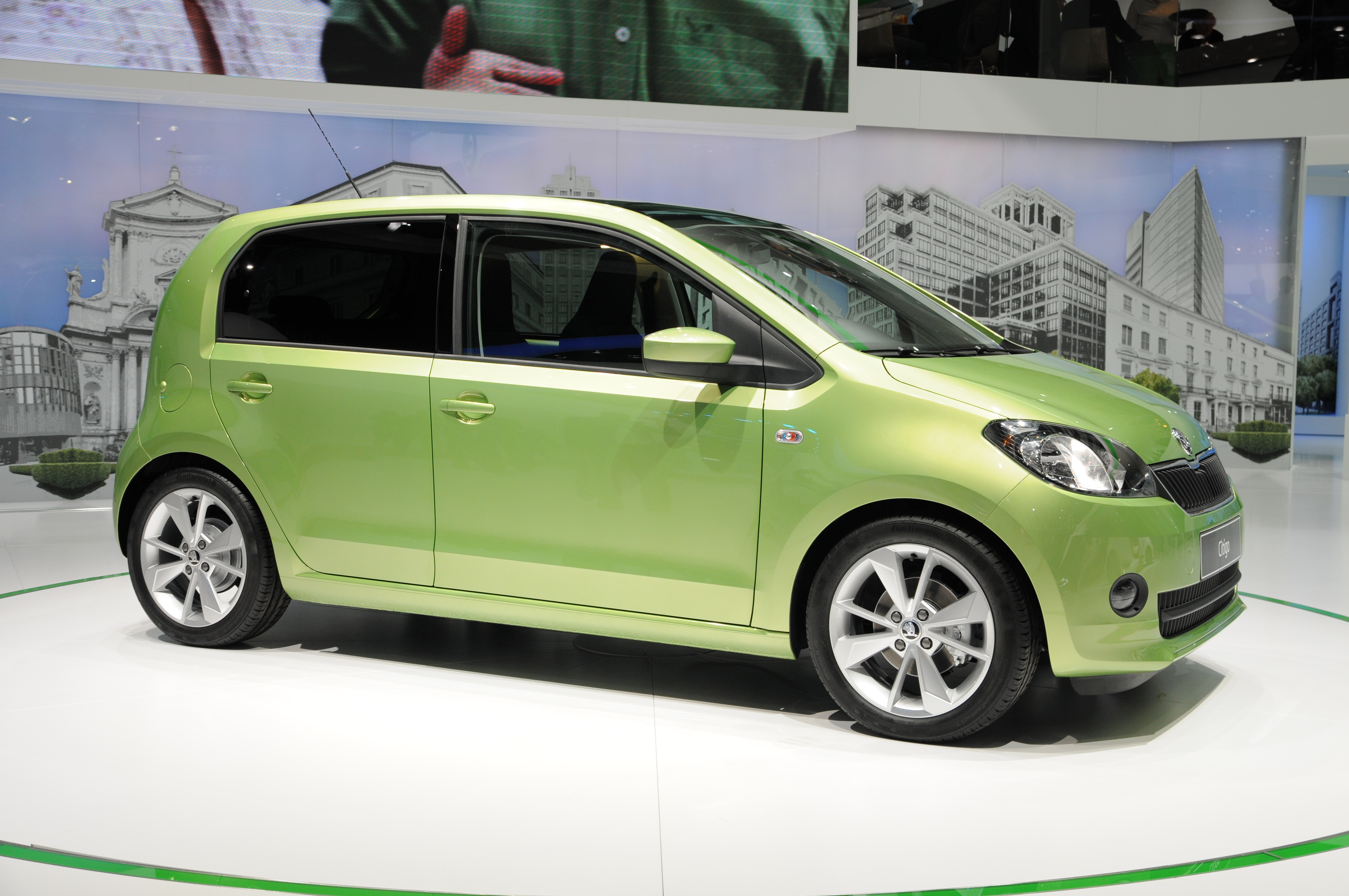 Geneva Motor Show 2012 (photos taken on the second press day)